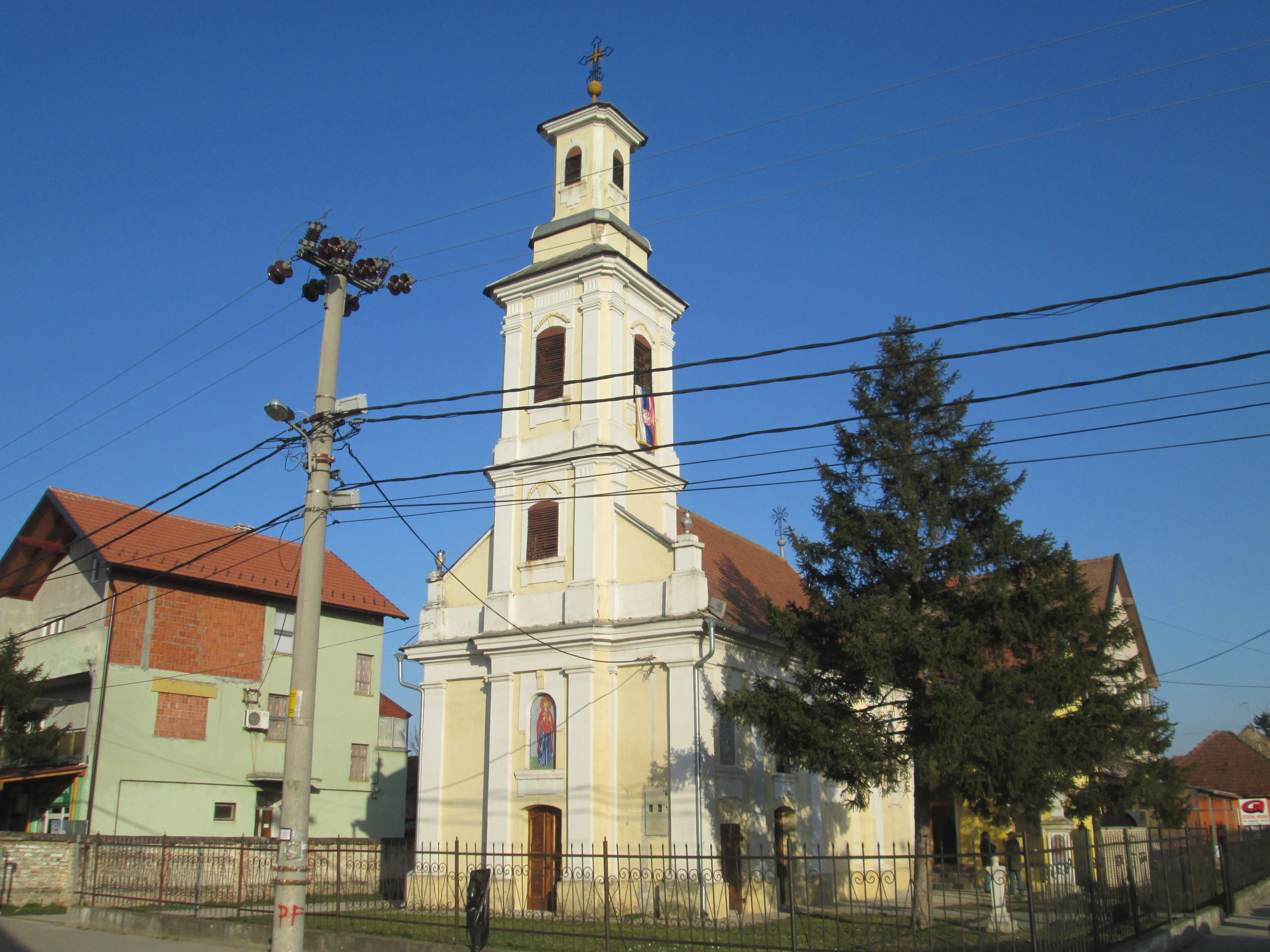 Church of St. Sava in BečmenСрпски (ћирилица): Црква св. Саве у Бечмену